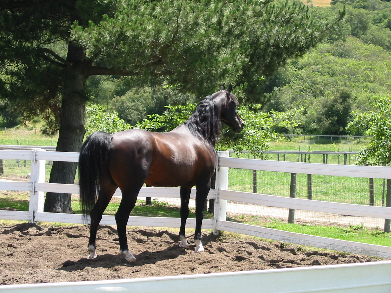 Desperado V - Sunday 4 Varian Arabians "Spring Fling" presentation of horses, 2002